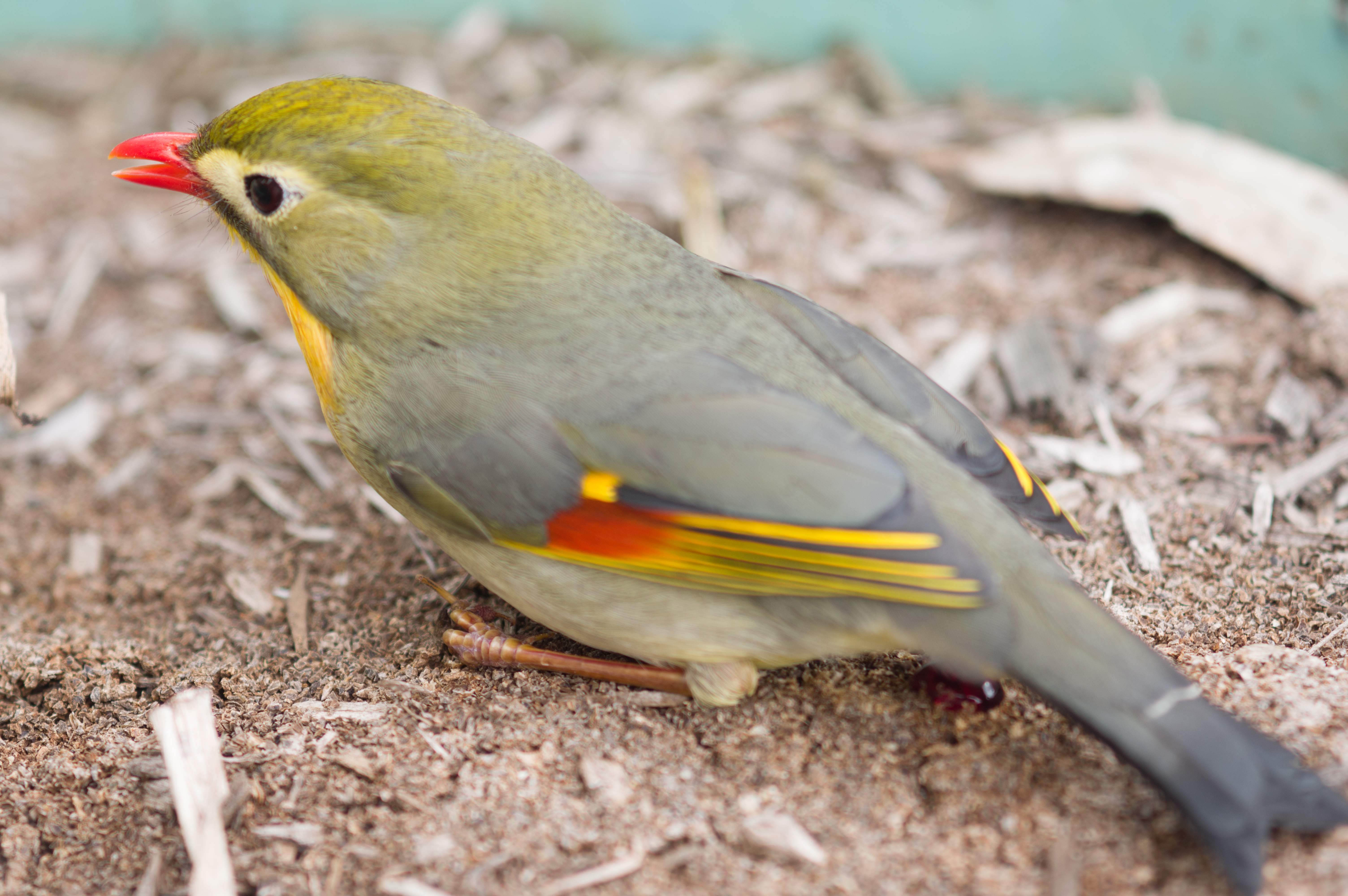 red-billed leiothrix; Maui, Hawaii, March 2016.